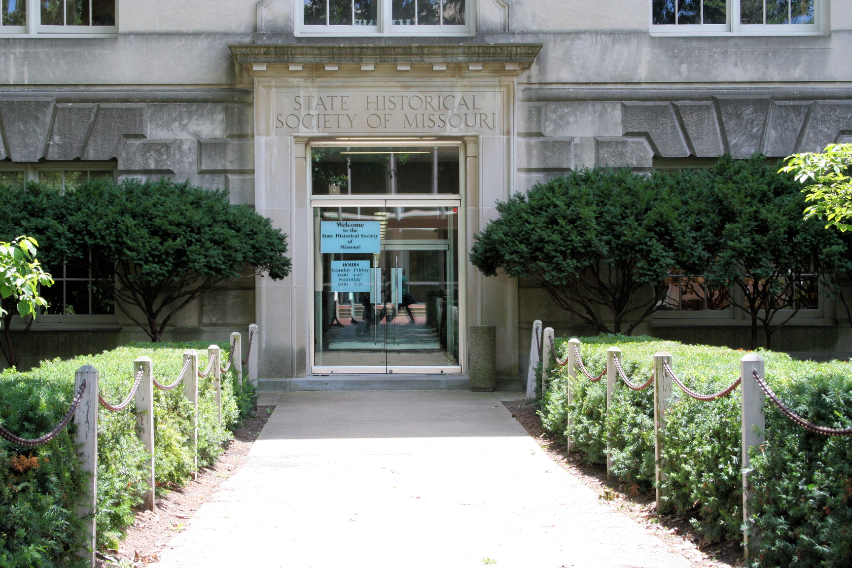 Photograph of the entrance to the State Historical Society of Missouri